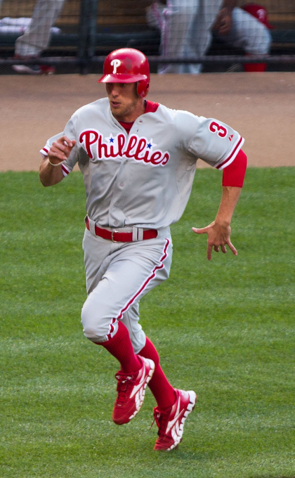 Hunter Pence